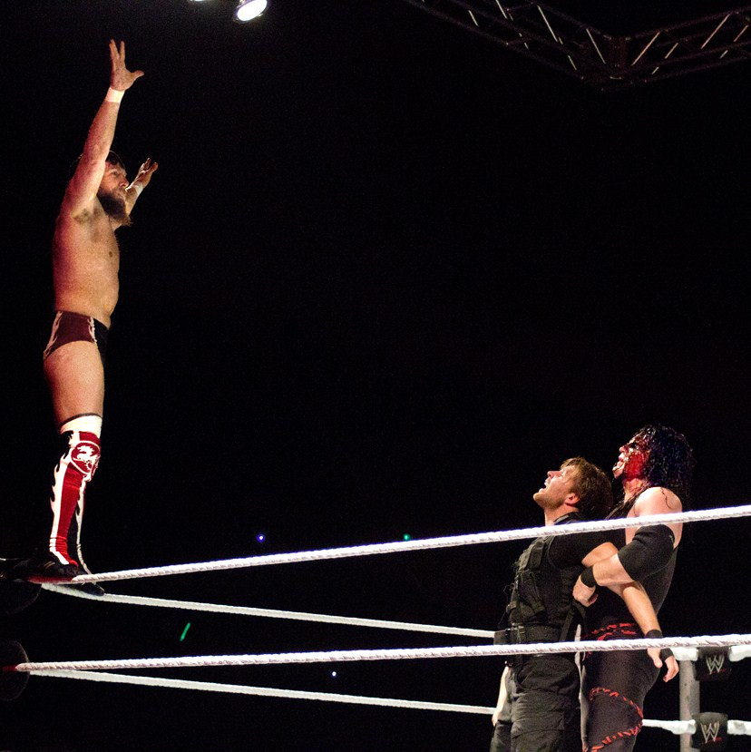 Daniel Bryan and Kane (Team Hell No) work together to attack Dean Ambrose during a WWE house show on February 2, 2013 in Montgomery, Alabama.